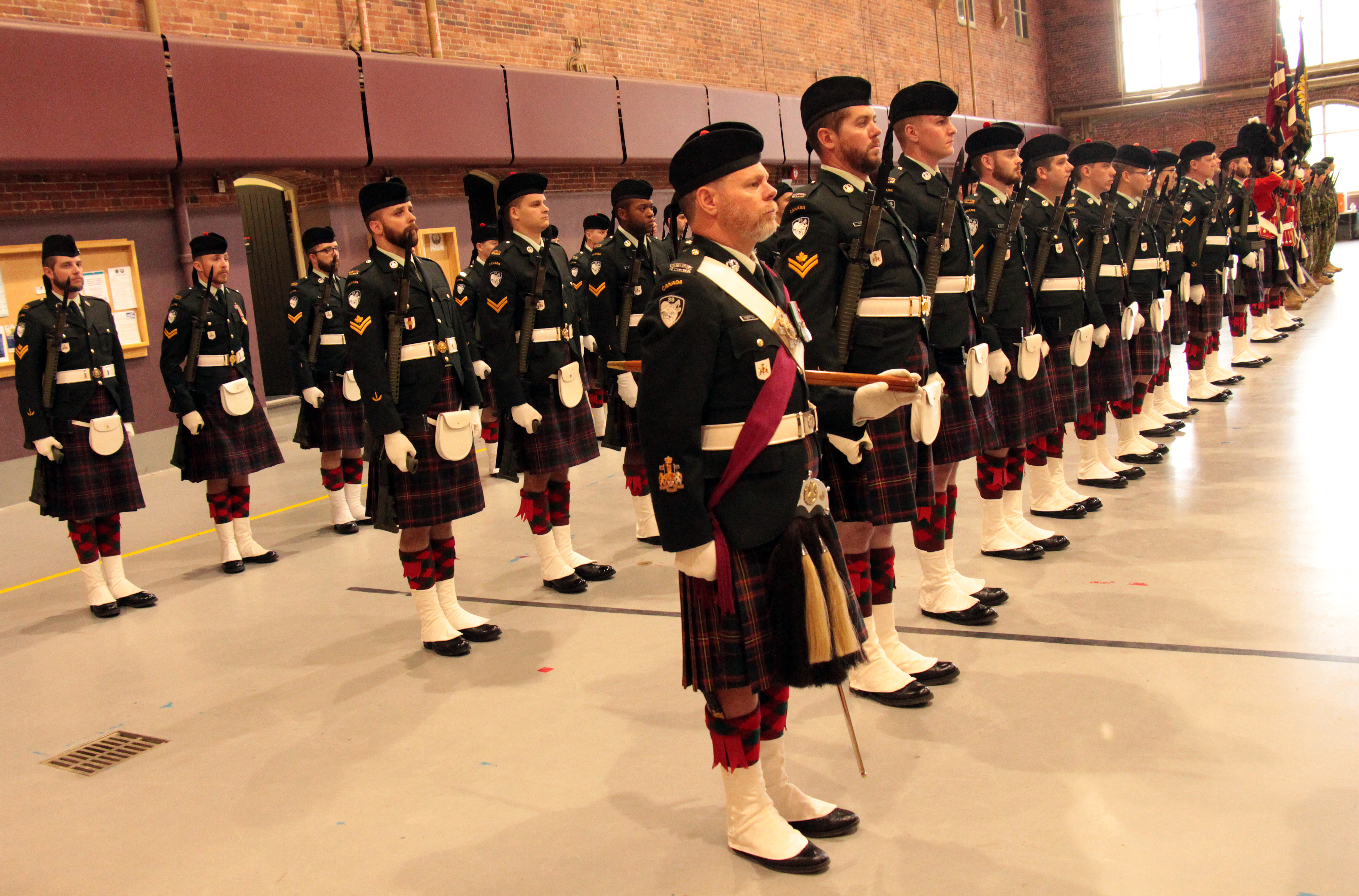 Change of Command Parade 7 September 2019 with Regimental Sergeant-Major, CWO Drummond Robertson with Number 1 Guard